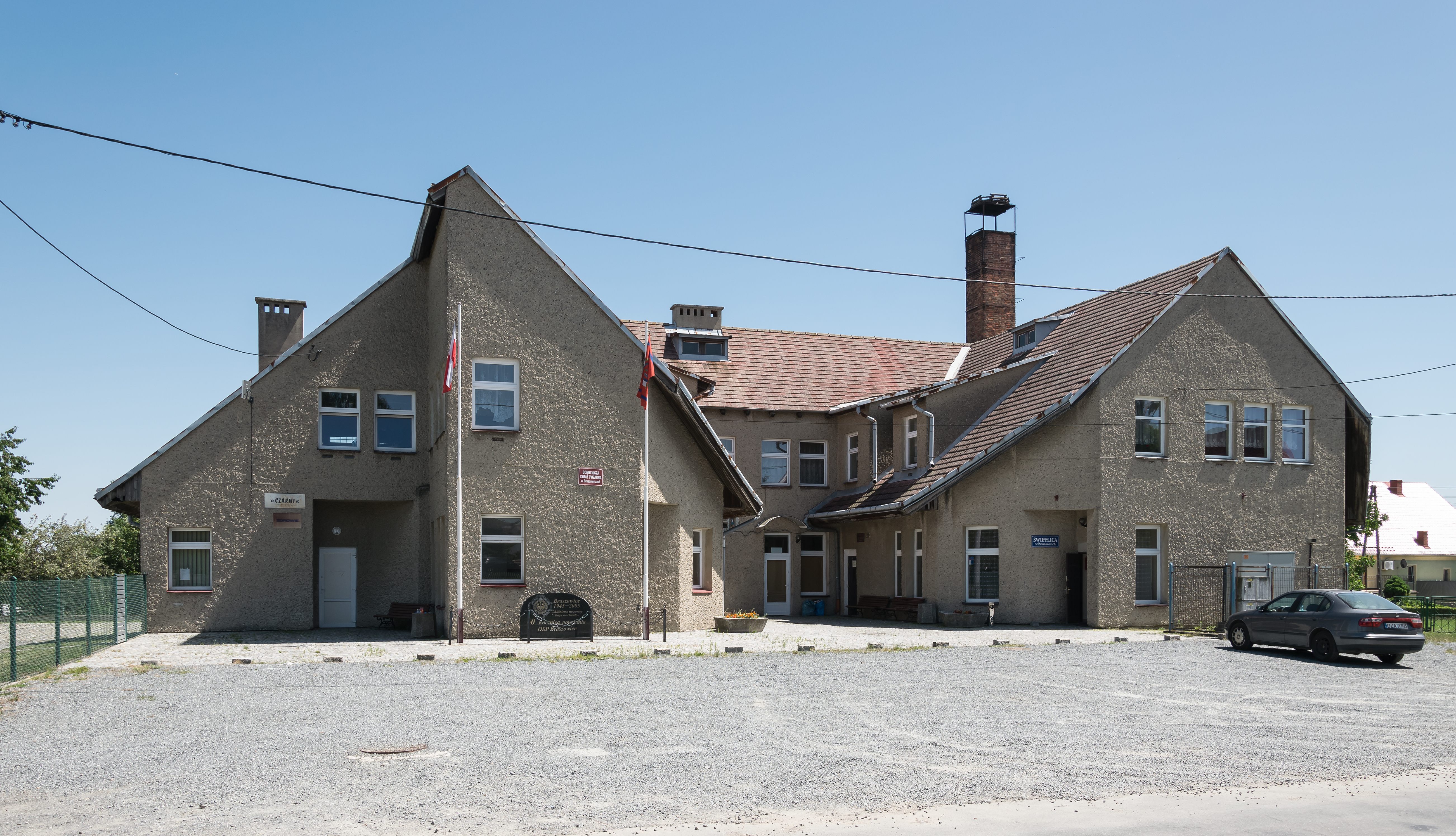 Fire station in Braszowice